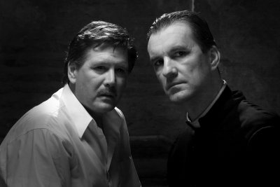 Armand Kautzky and Ádám Lux in the movie Szeretlek, Faust.